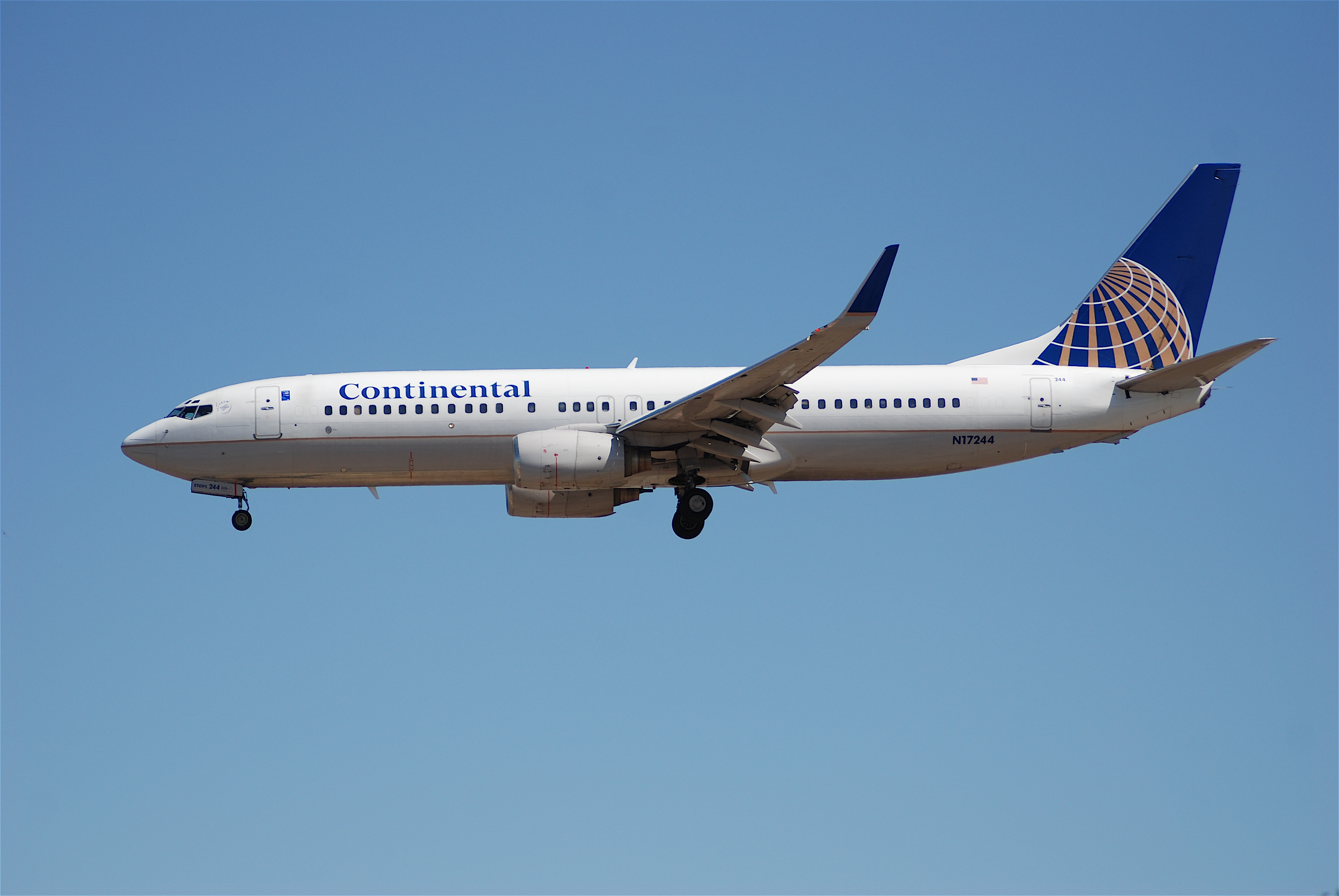 Continental Airlines Boeing 737-800; N17244@LAX;18.04.2007/463hw